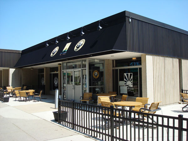 crossroads marketplace at Eastern Michigan University